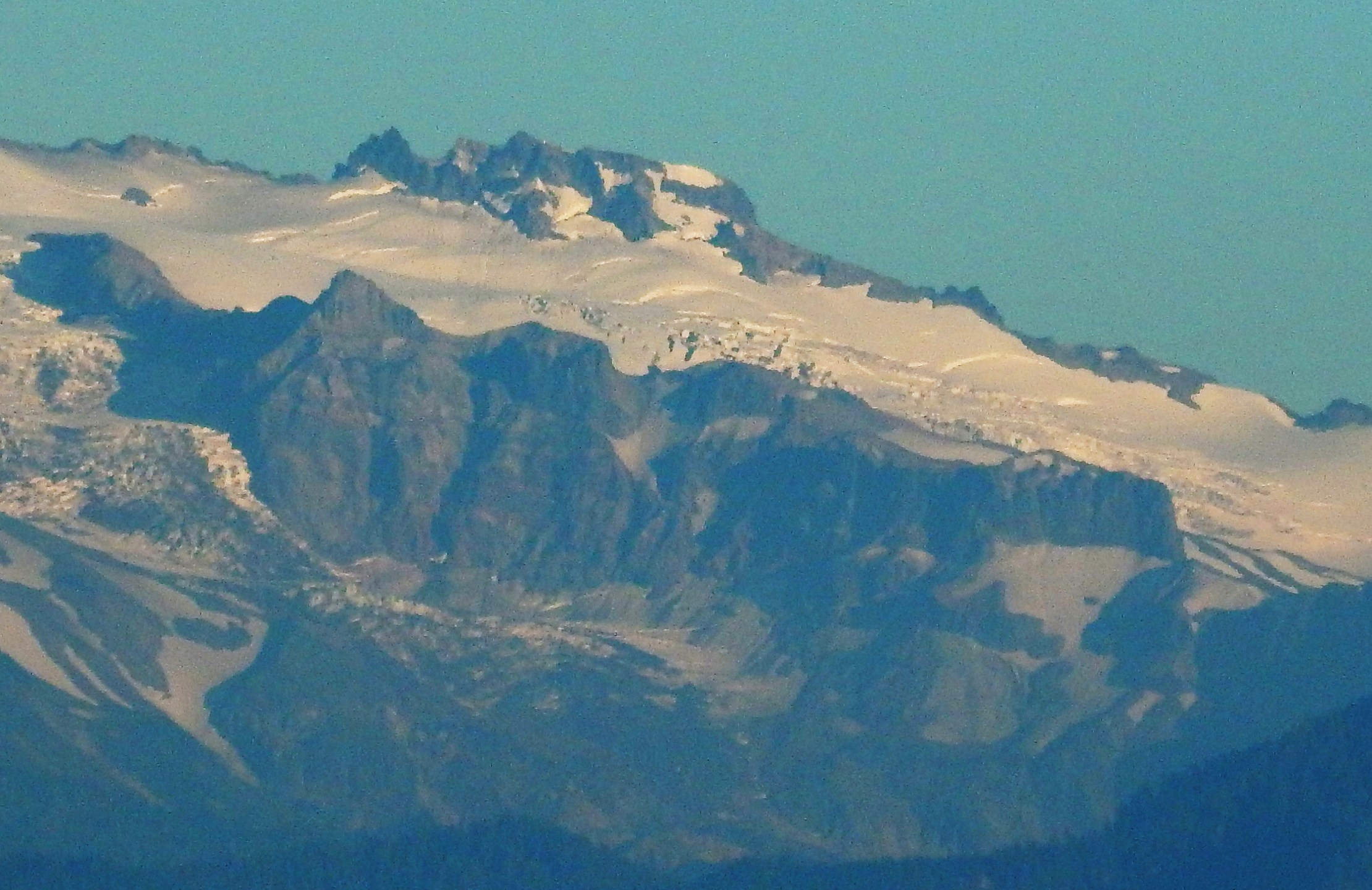 Puyallup Cleaver 8966' and Puyallup Glacier on Mount Rainier. Seen from Auburn's Centennial Viewpoint Park.